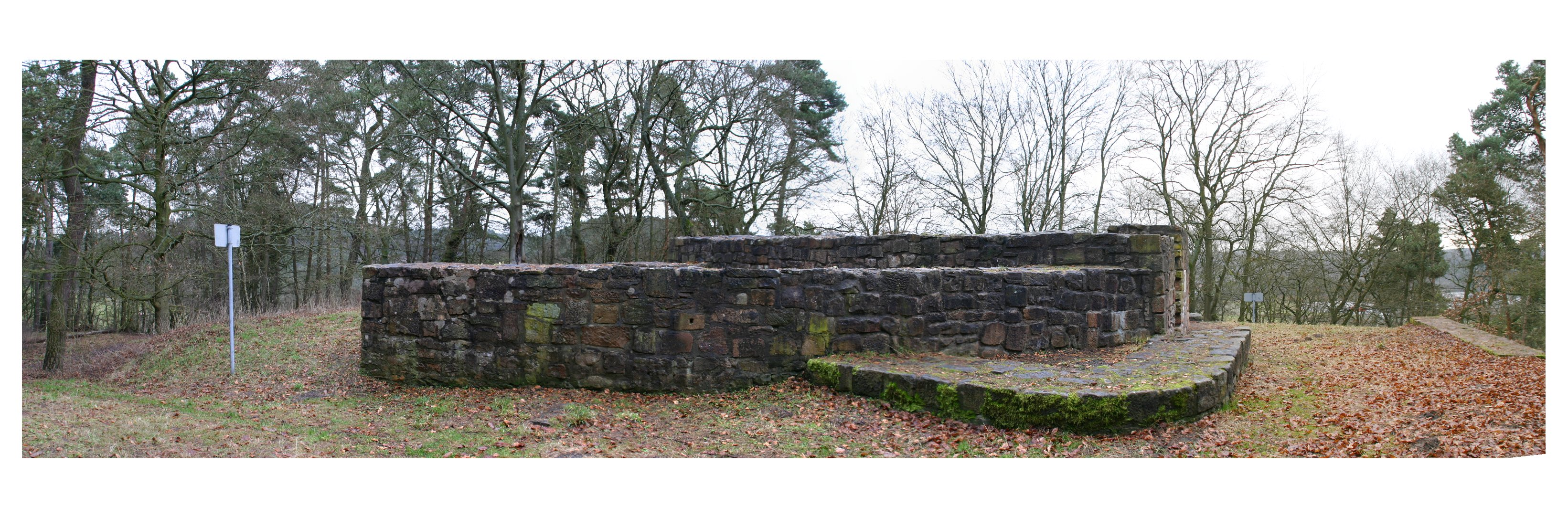 Weissenstein castle near Wehrda (Marburg/Germany). Panroma of 9 frames (added with Hugin an cut with GIMP)